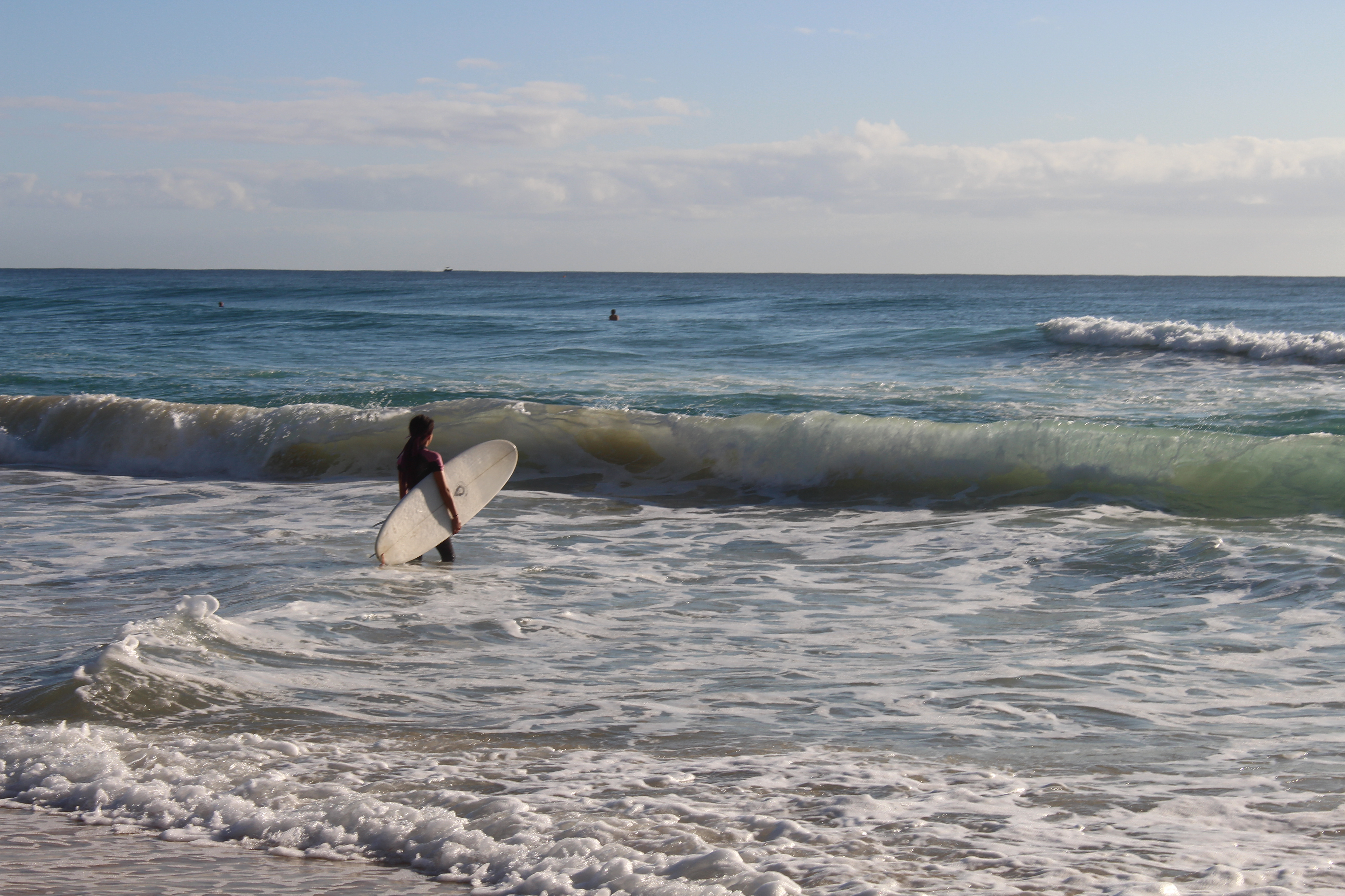 A Surfer gazing at the horizon during his morning surf at the Surfers Paradise Beach, Gold Coast